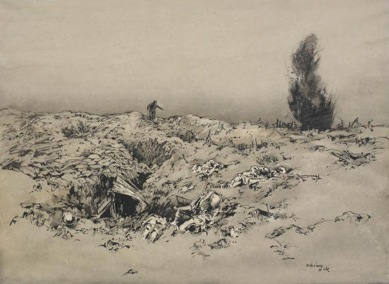 Trenches in Front of Arras - the Runner image: in the foreground of the landscape are trenches, shell holes and several dead soldiers. On the horizon a small figure is standing, with a shell exploding to the right.